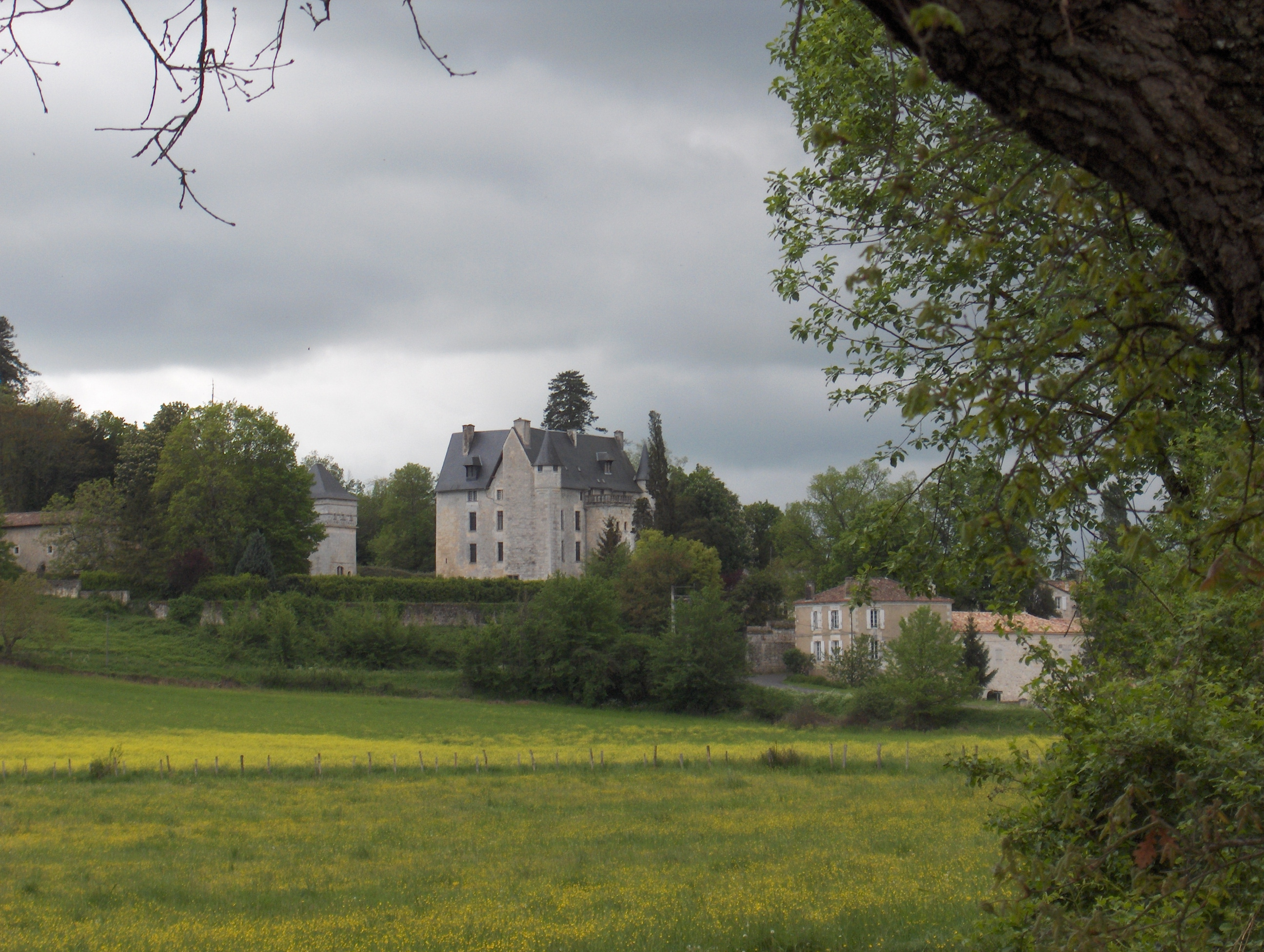 Castle of Vouzan - Charente - France - Europe